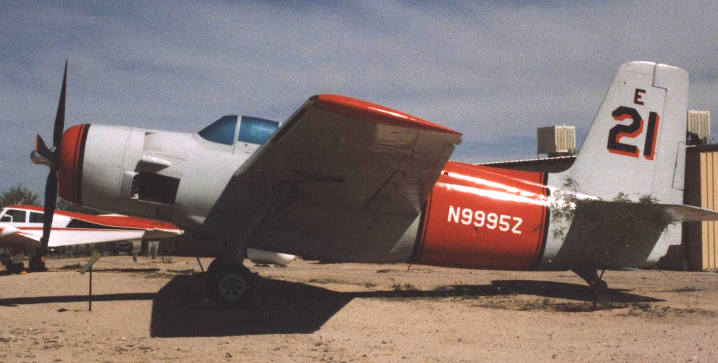 Grumman AF-2S Guardian N9995Z in the water-bombing markings of Aero Union at the Pima Air Museum, Tucson, Arizona